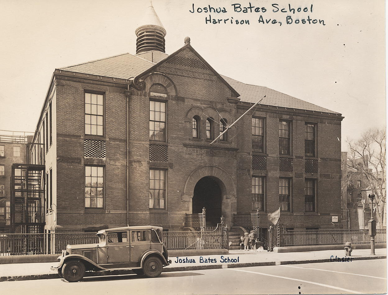 Joshua Bates School (Exterior)